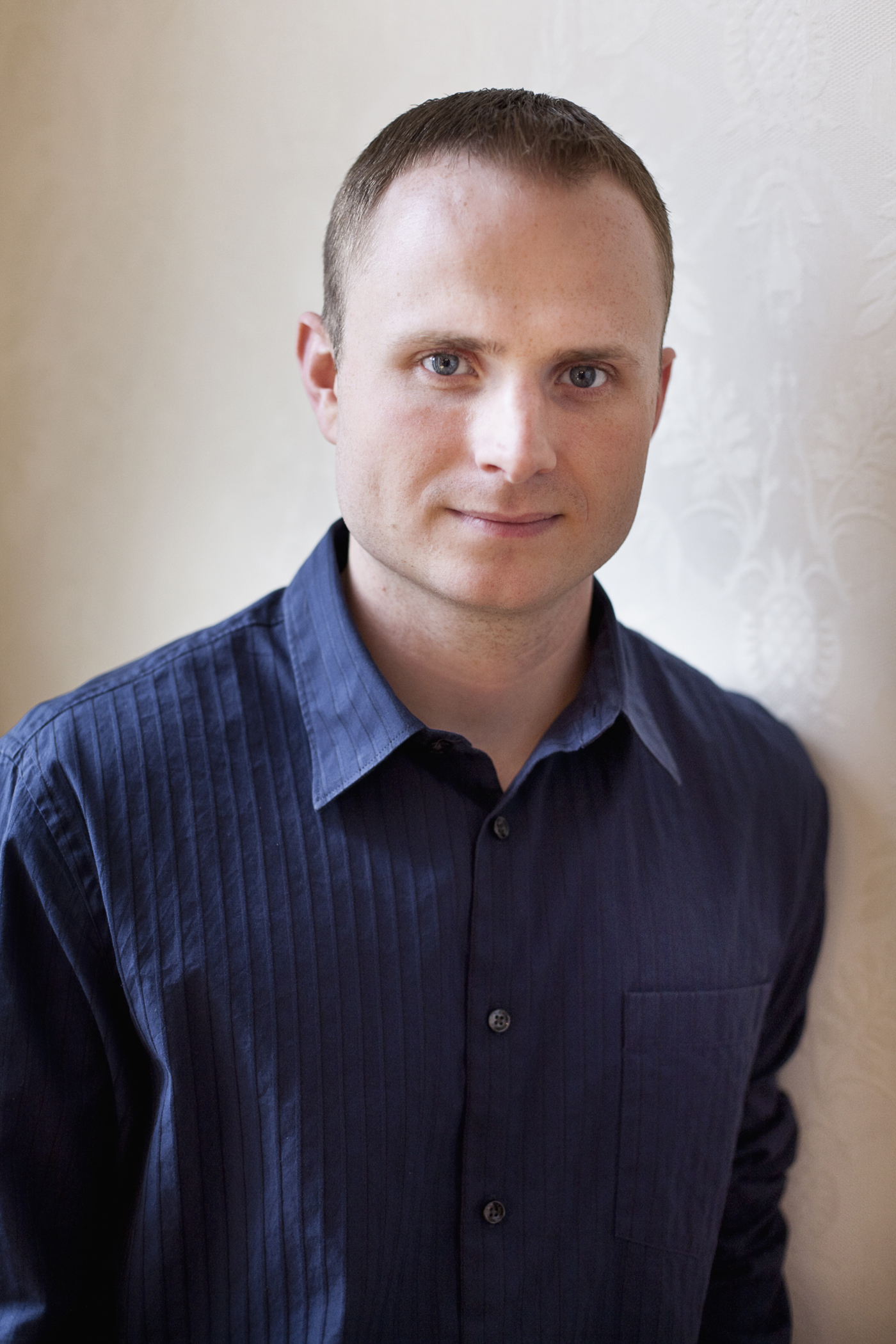 Photo of author Michael Koryta by Wout Jan Balhuizen.